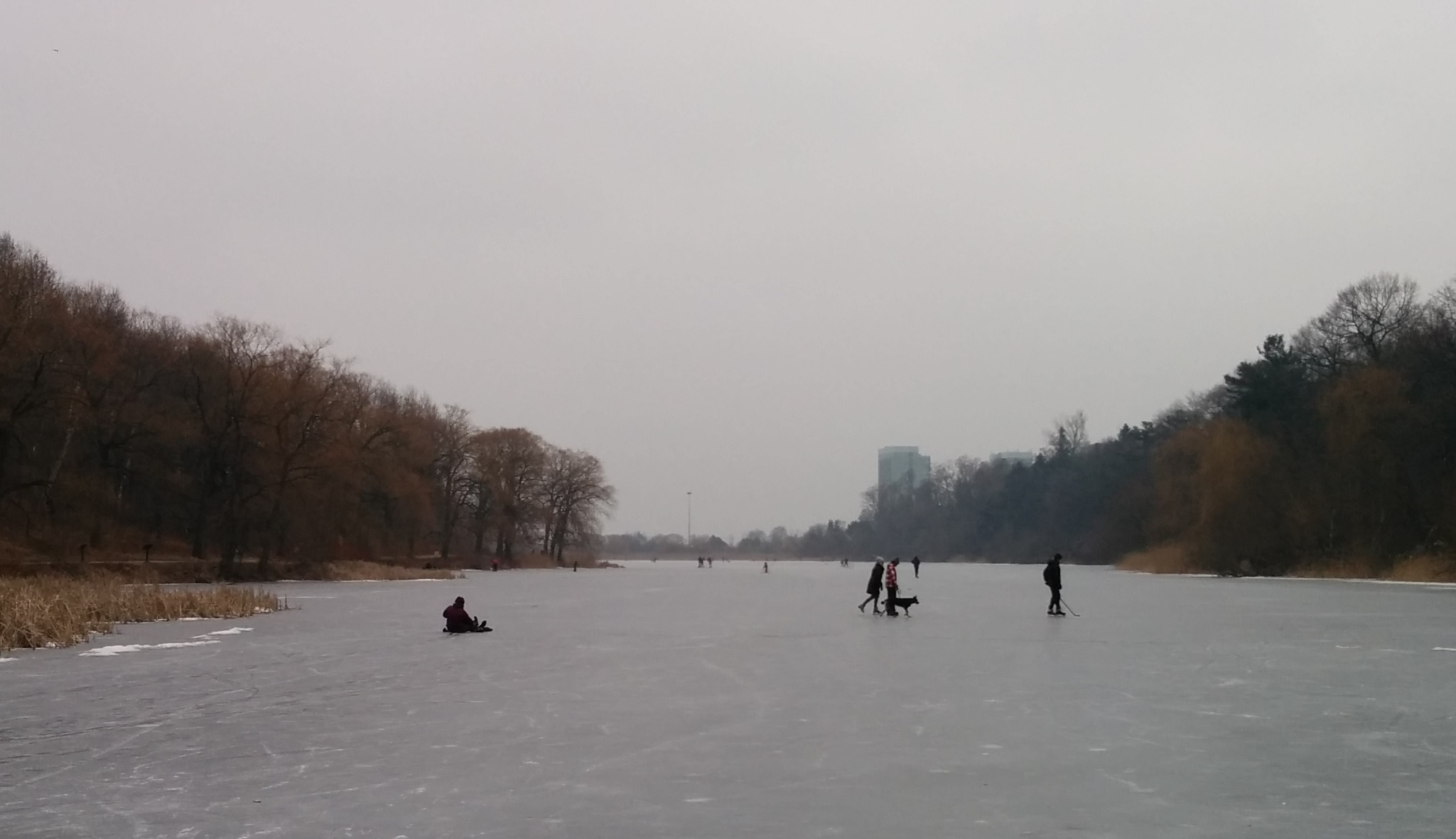 View of Grenadier Pond looking south, showing skaters on ice